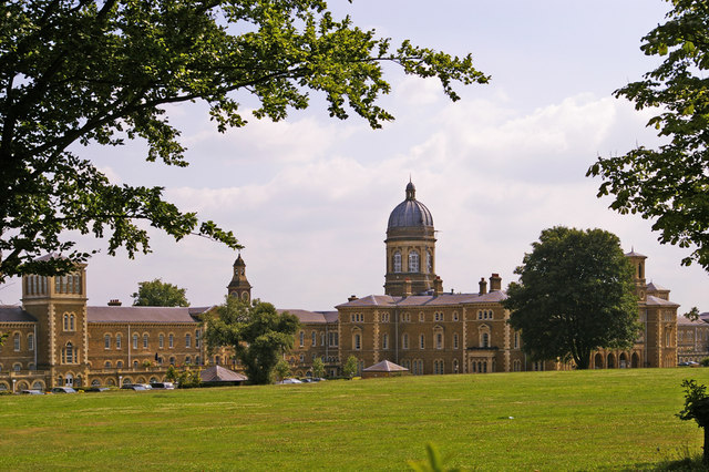 Housing, Friern Barnet Road, London N11 Some of the renovated buildings from the old Colney Hatch Hospital. This is a very attractive, landscaped complex.